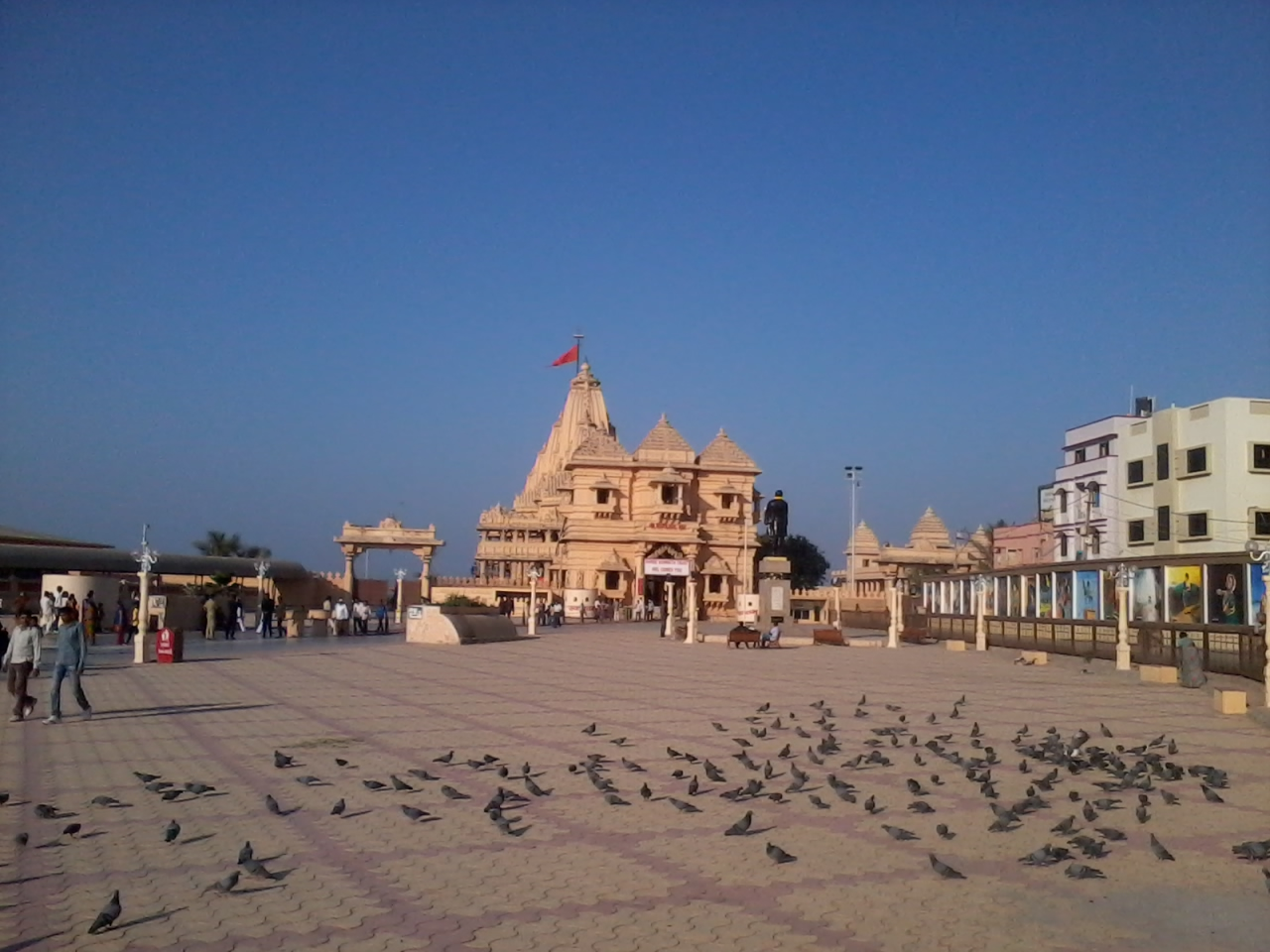 Somnath Temple View 1-Dec-2012